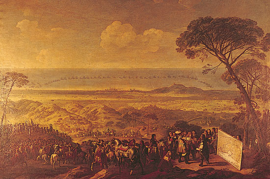 Asedio de Barcelona por parte de don Juan José de Austria